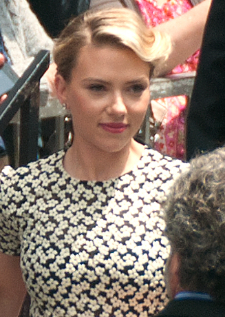 Scarlett Johansson Revealing her star on the Hollywood Walk of Fame on May 2, 2012.